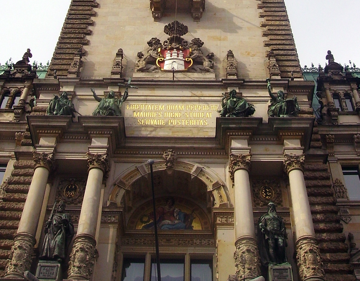 Tower of the City Hall, Hamburg